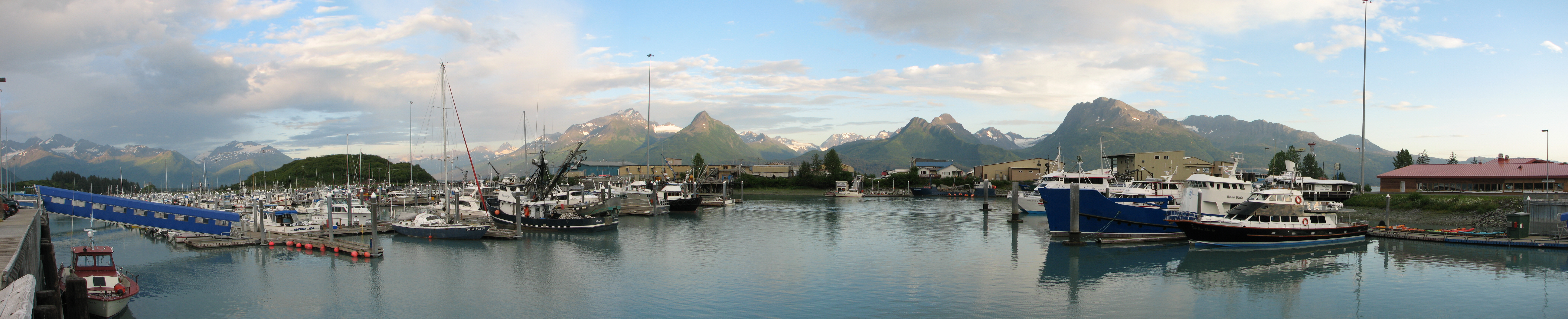 Saket Vora, self-created, 29 July 2007.